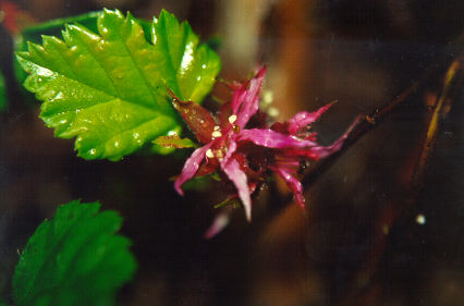 Rubus nivalis, Clearwater National Forest, USA